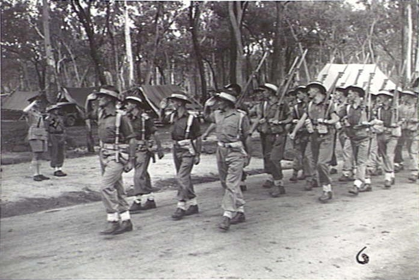 2/11th Commando Squadron (Australia) march past the Duke of Gloucester, the Governor General of Australia, during a parade at Ravenshoe, Queensland, on 14 February 1945.